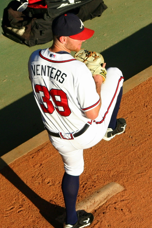 Atlanta Braves relief pitcher Jonny Venters warming up in the bullpen.